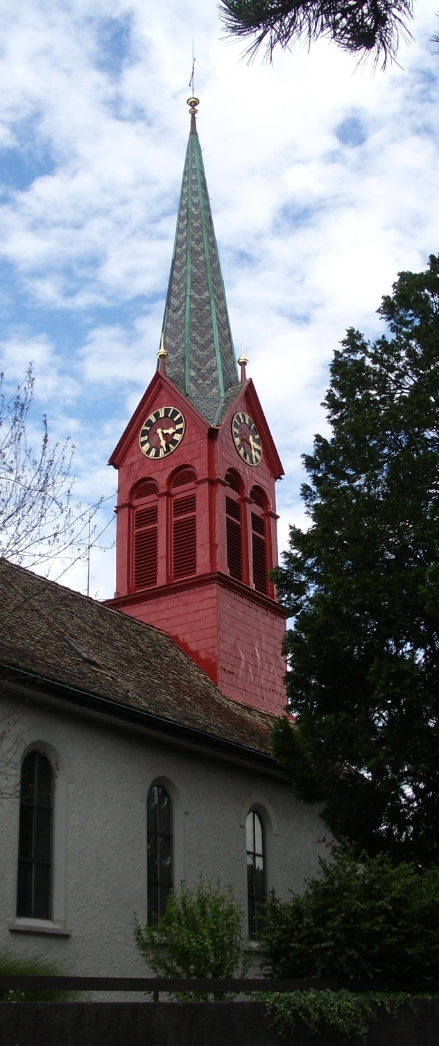 Schwamendingen, Zurich, Switzerland